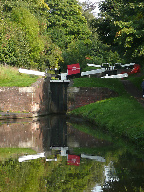 Stourbridge Canal closed, StourtonJunction, Staffordshire The way through to Birmingham will be unavailable for 4-6 months ... or more. This shows the entrance to the canal at Stourton bottom lock.